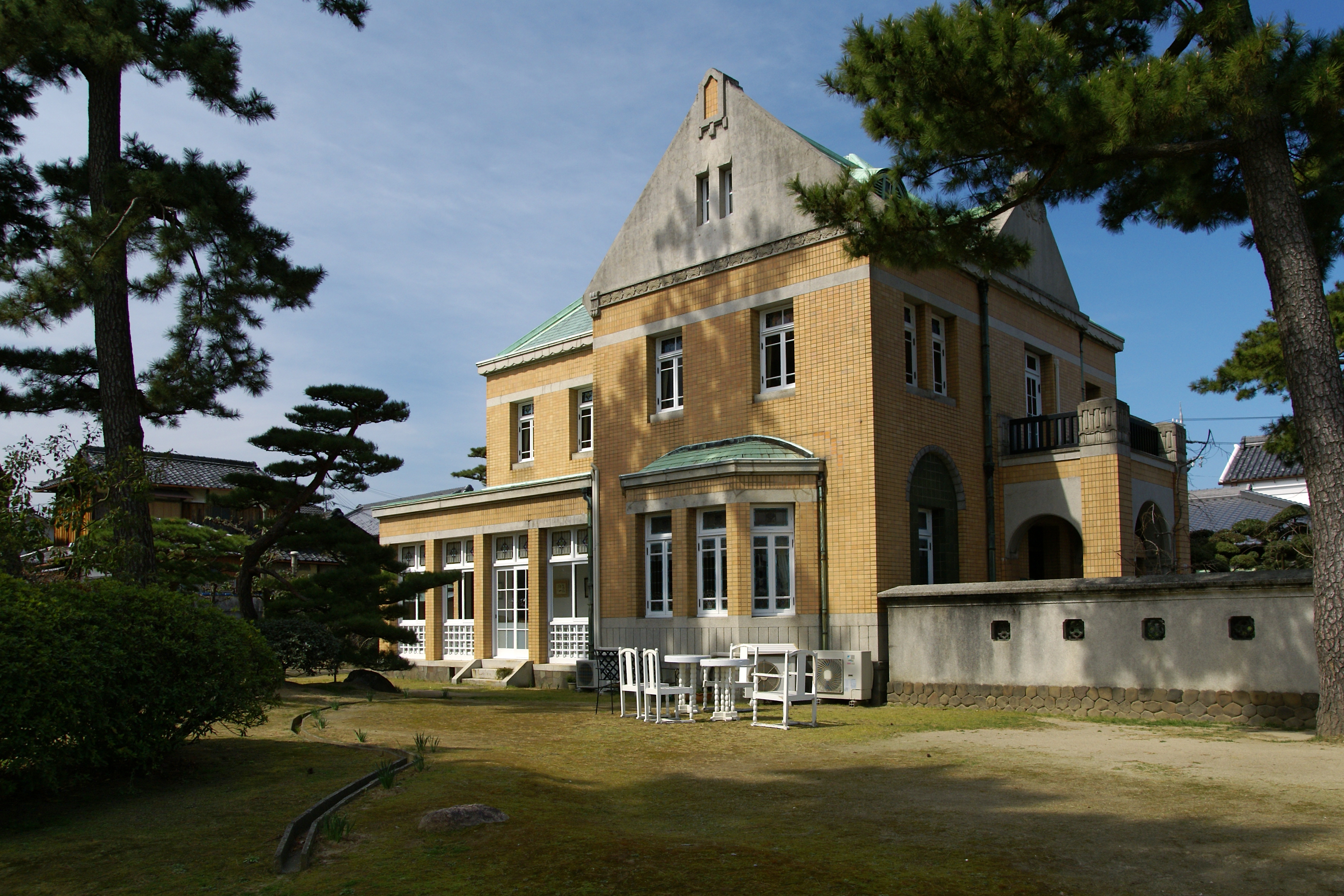 Tajiri Historic House in Tajiri, Osaka prefecture, Japan